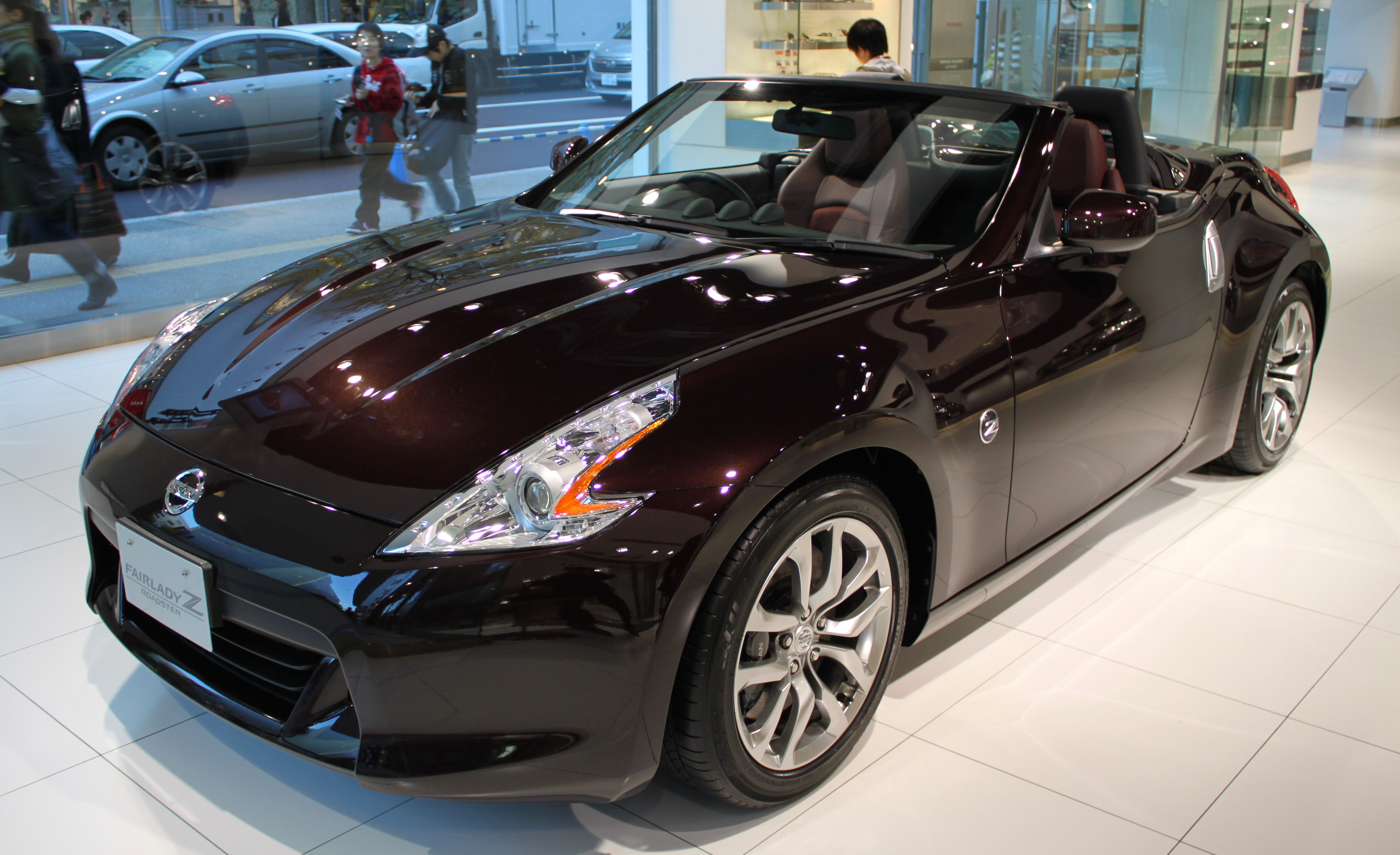 NISSAN FAIRLADY Z ROADSTER Z34